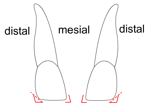 (tooth) angle characteristic